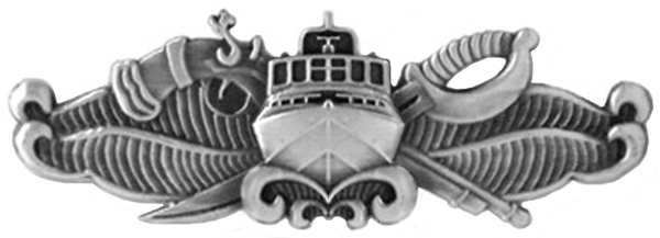 US Navy Special Warfare Combatant-Craft Crewman insignia